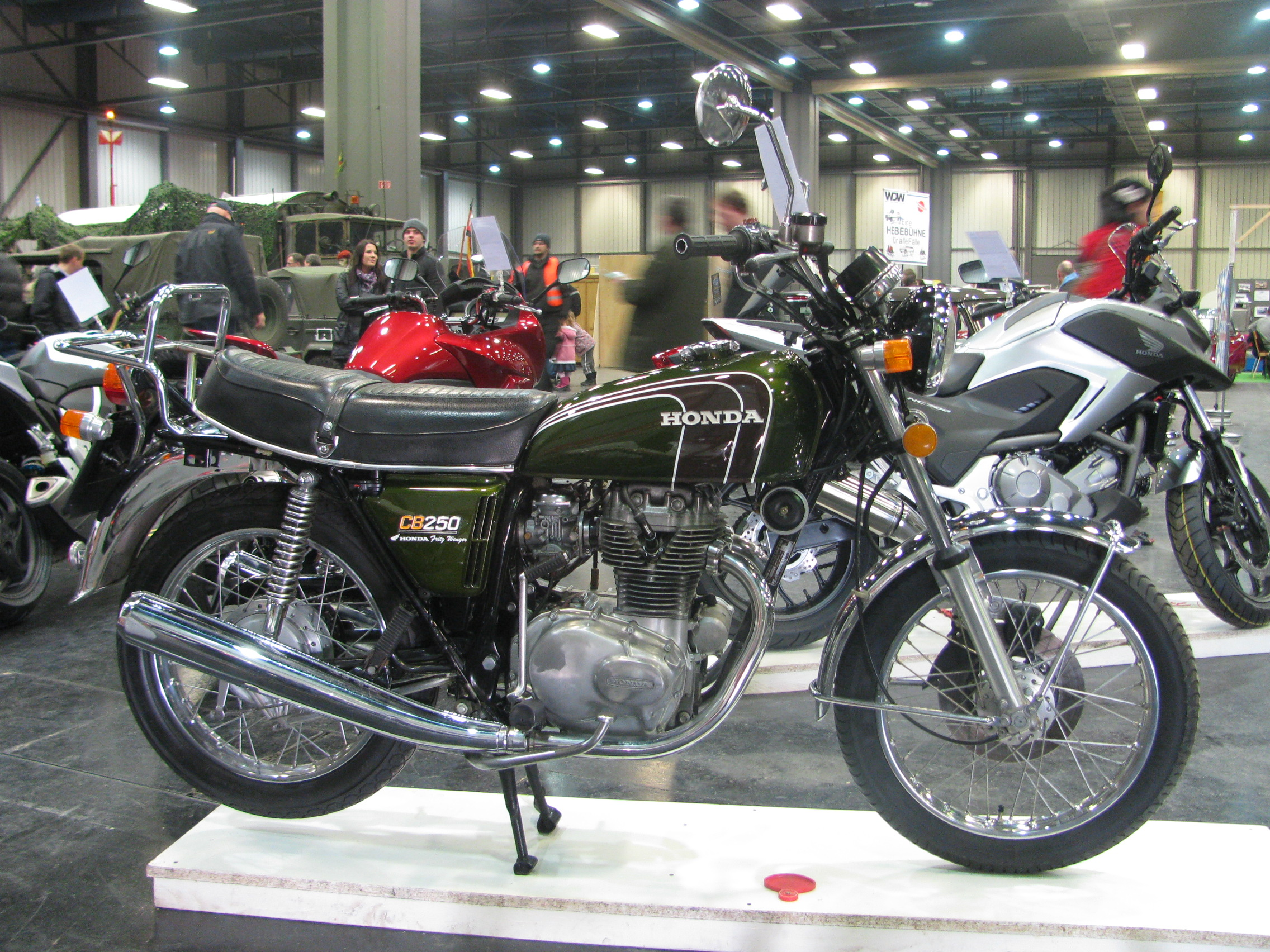 Honda CB250 G from 1977. 247 cm³, 20 kW (27 hp). MotoTechnica Augsburg 2012.